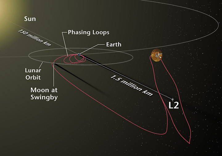 NASA-created illustration of the trajectory and orbit of the Wilkinson Microwave Anisotropy Probe. "This diagram shows the WMAP trajectory and orbit pattern around the second Lagrange Point (L2). The travel time to L2 for WMAP was 3 months, including a month of phasing loops around the Earth to allow a lunar gravity-assisted boost."